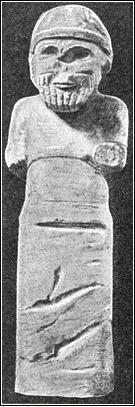 Drawing (painting?) of a monumental of Hadad, dated to the first half of the 8th century BC, found at Gerdschin near Sam'al (Zincirli). The lower part of the statue is covered in an Aramaic inscription stating that it was erected by king Panamuwa king of Ja'udi. Now on exhibit at the Pergamonmuseum, Berlin.